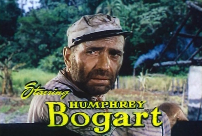 Screenshot of Humphrey Bogart from the trailer for the film The African Queen.